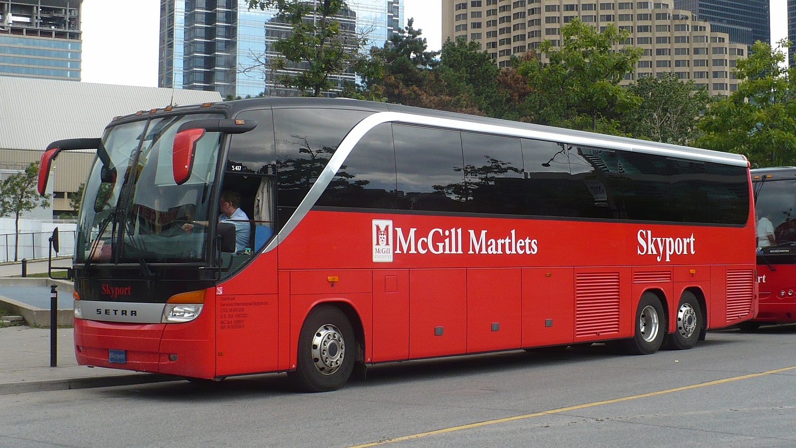 McGill Martlets bus operated by Skyport